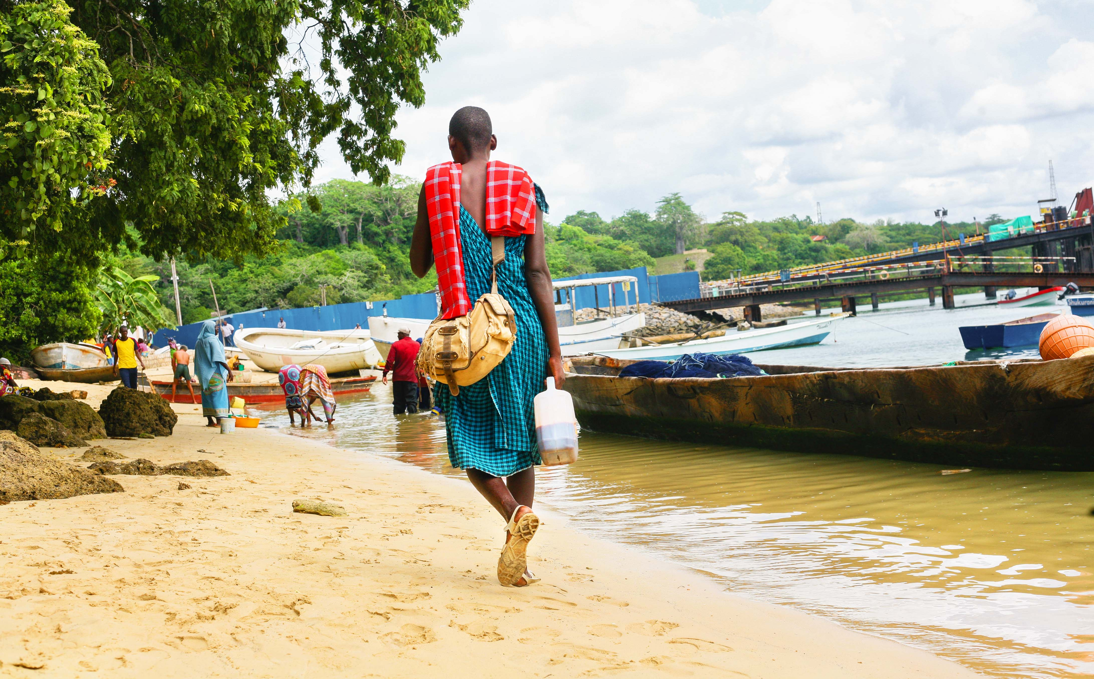 walking from village to village selling African medicine commonly known as the Masai This is an image with the theme "Africa on the Move or Transport" from: Kenya